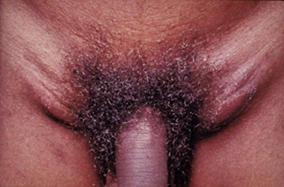 Lymphogranuloma venereum: is caused by the invasive serovars L1, L2, or L3 of Chlamydia trachomatis. This young adult experienced the acute onset of tender, enlarged lymph nodes in both groins.